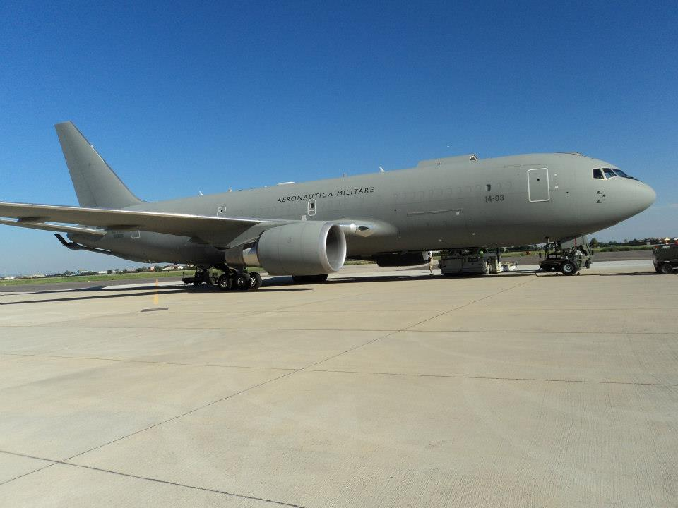 Italian Airforce Boeing KC-767